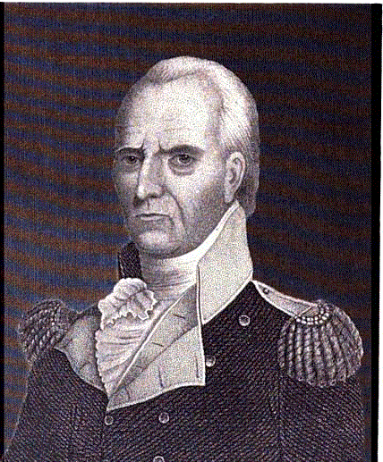 General John Stark of New Hampshire, "Live free or die: Death is not the worst of evils."